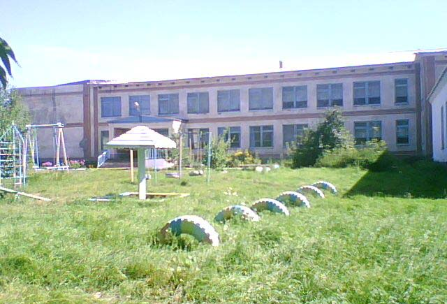 Municipal educational institution Tretyakov high school